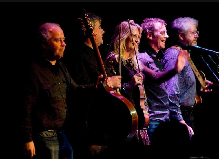 Irish traditional group Altan at the end of their concert in Minneapolis, MN Cedar Cultural Center . L-R: Ciarán Curran, Ciarán Tourish, Mairéad Ní Mhaonaigh, Dermot Byrne and Dáithí Sproule